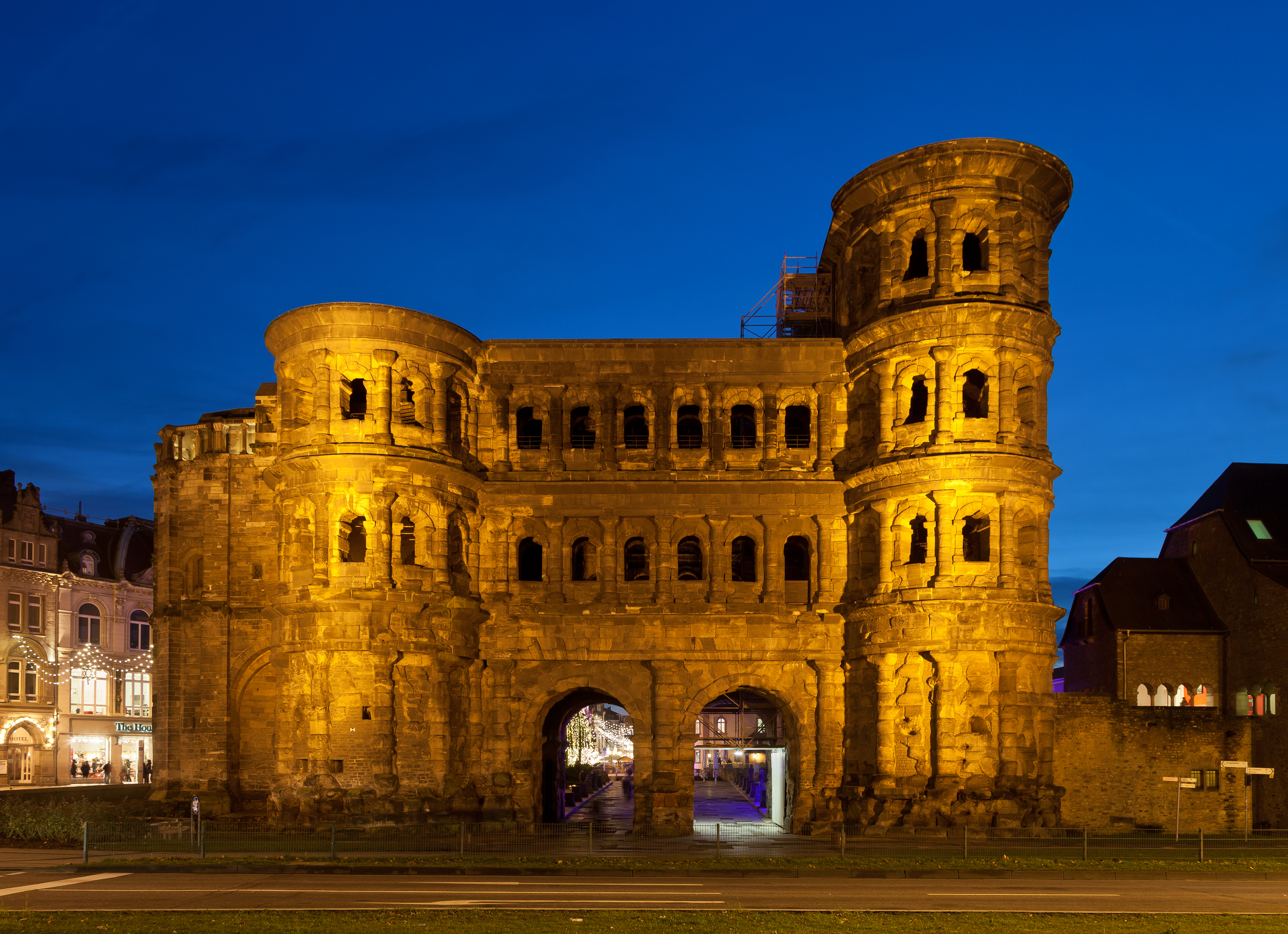 Porta Nigra in Trier, Germany